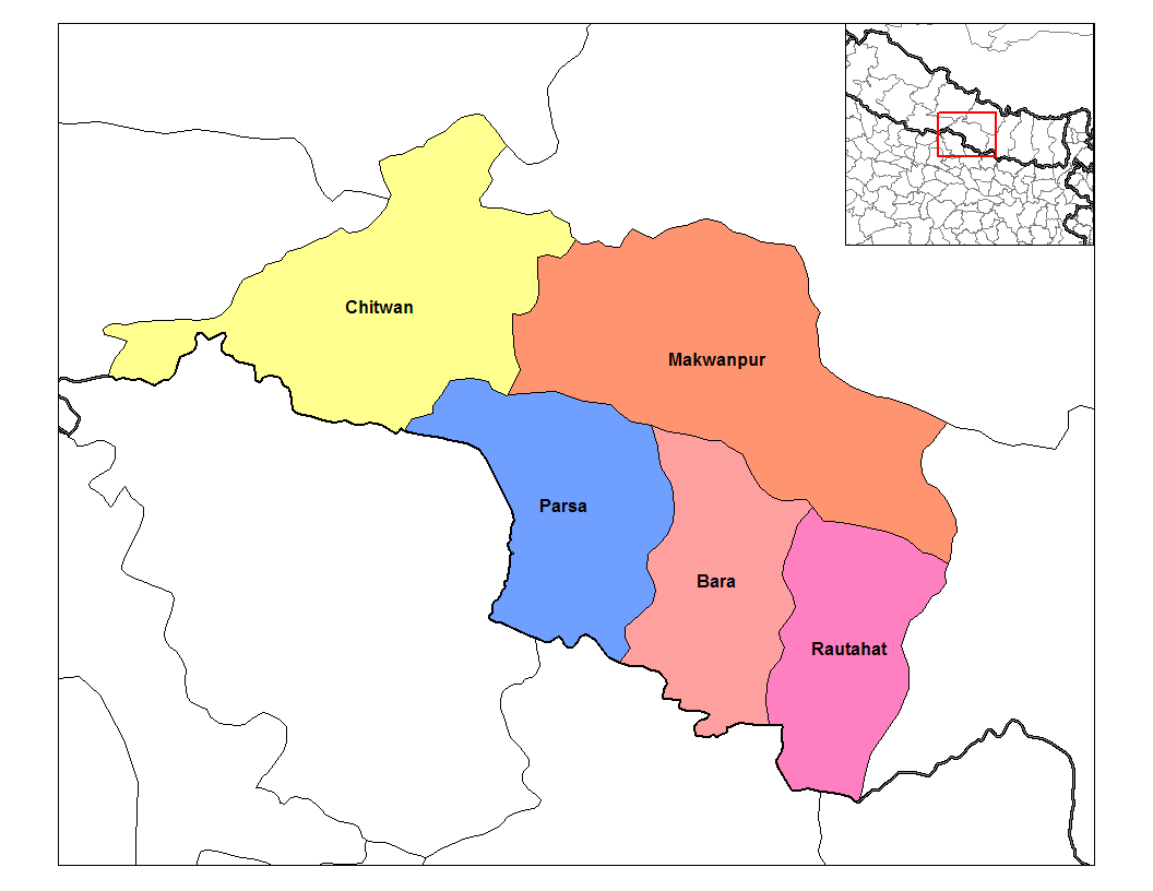 Map of the districts of Narayani Zone (wp-EN) in Nepal. Created by Rarelibra 19:33, 18 September 2006 (UTC) for public domain use, using MapInfo Professional v8.5 and various mapping resources.